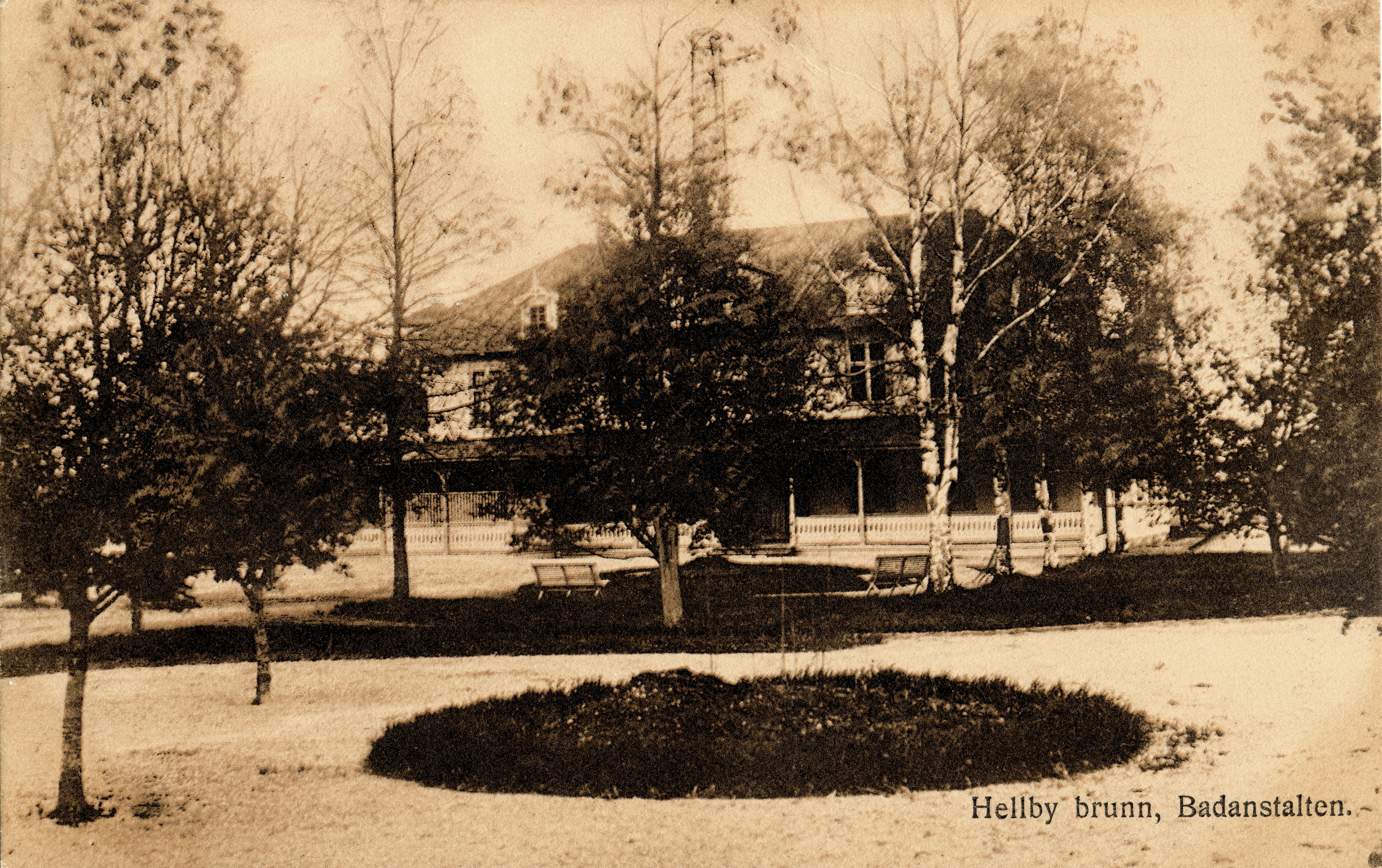 Image from Hällbybrunn (outside Eskilstuna, Sweden). The old spa which Hällbybrunn got its name from. Before 1918.